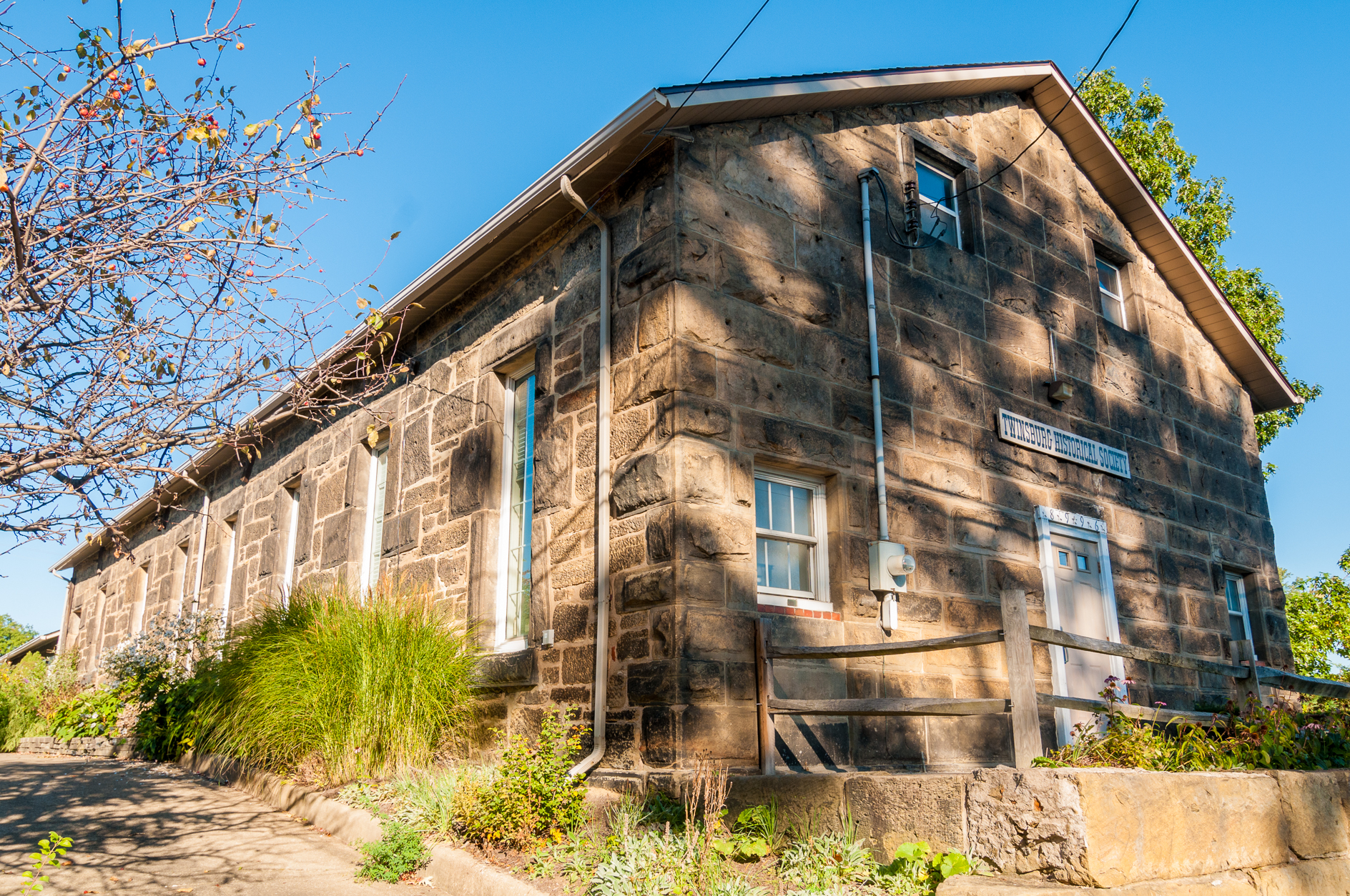 Twinsburg Institute, 8996 Darrow Rd. Twinsburg